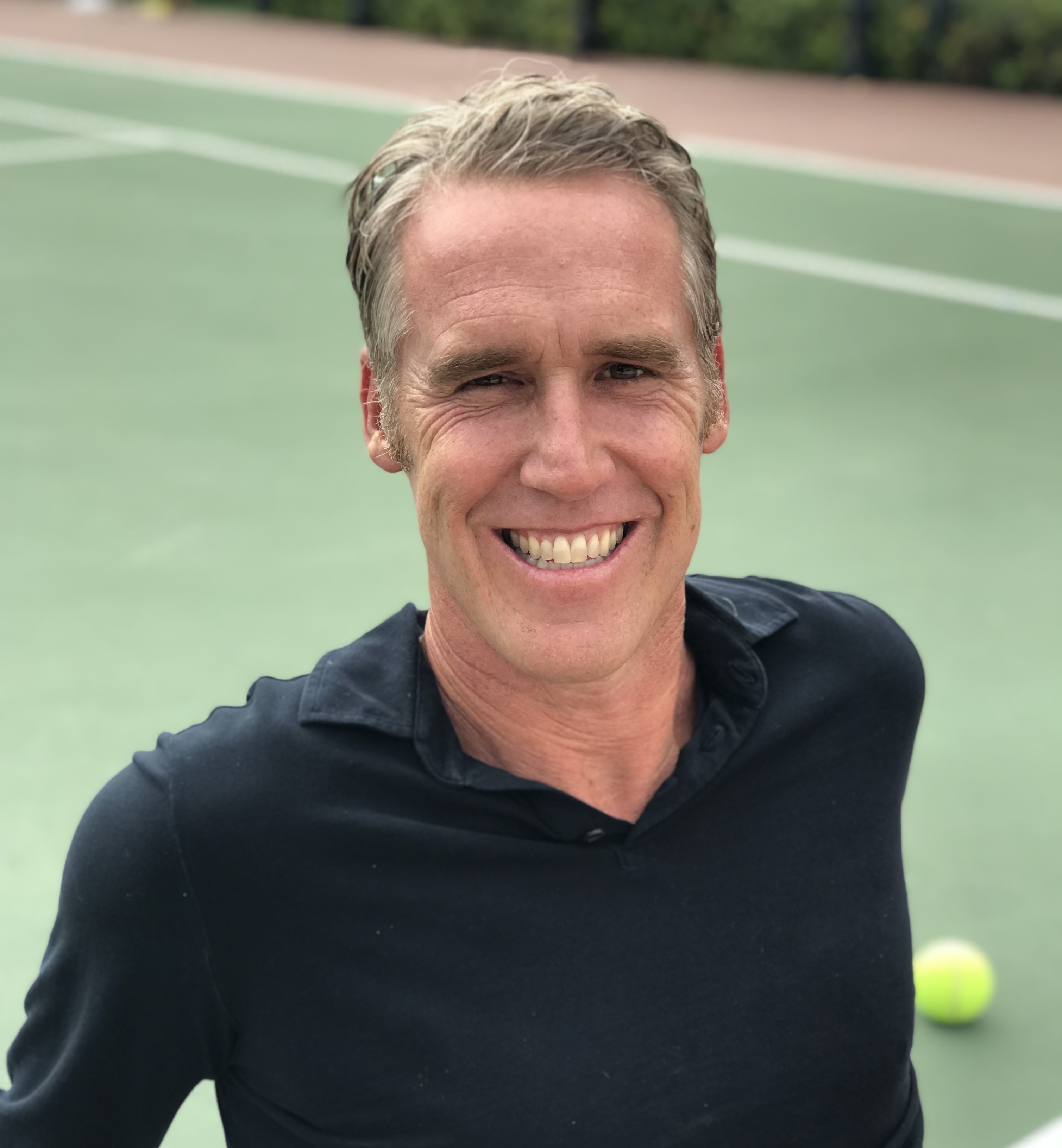 Alex O'Brien Former Tennis Pro